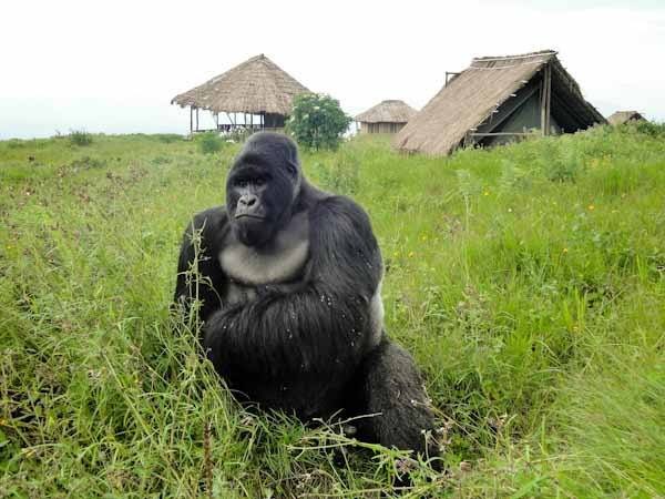 Silverback of the Rugendo Family at Bukima Patrol Post tented camp — Virunga National Park, Democratic Republic of the Congo.